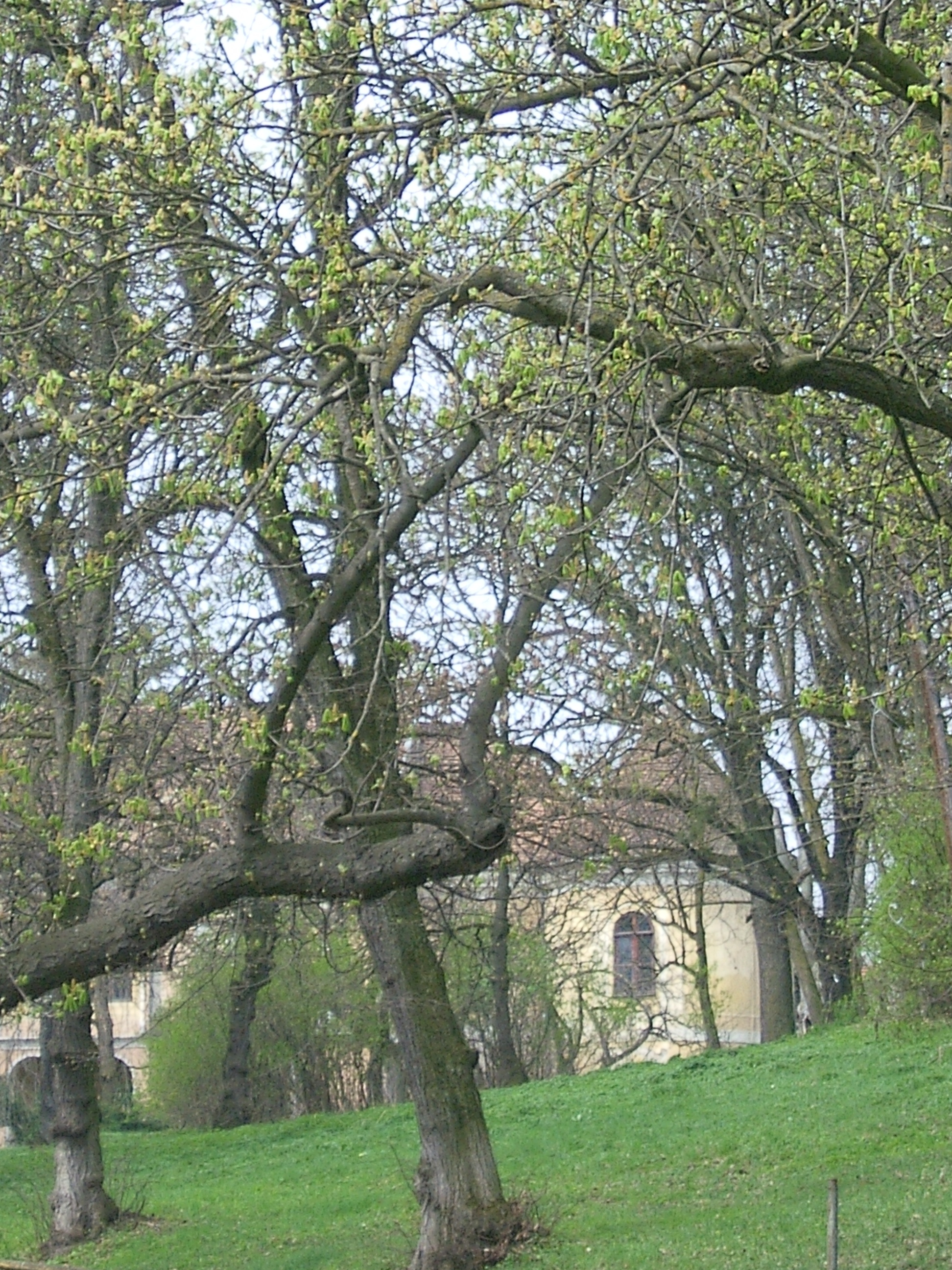 Gilău Castle 05